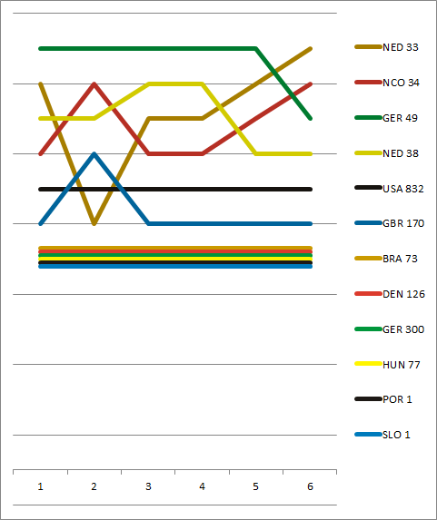 Soling Positions during the 2008 Vintage